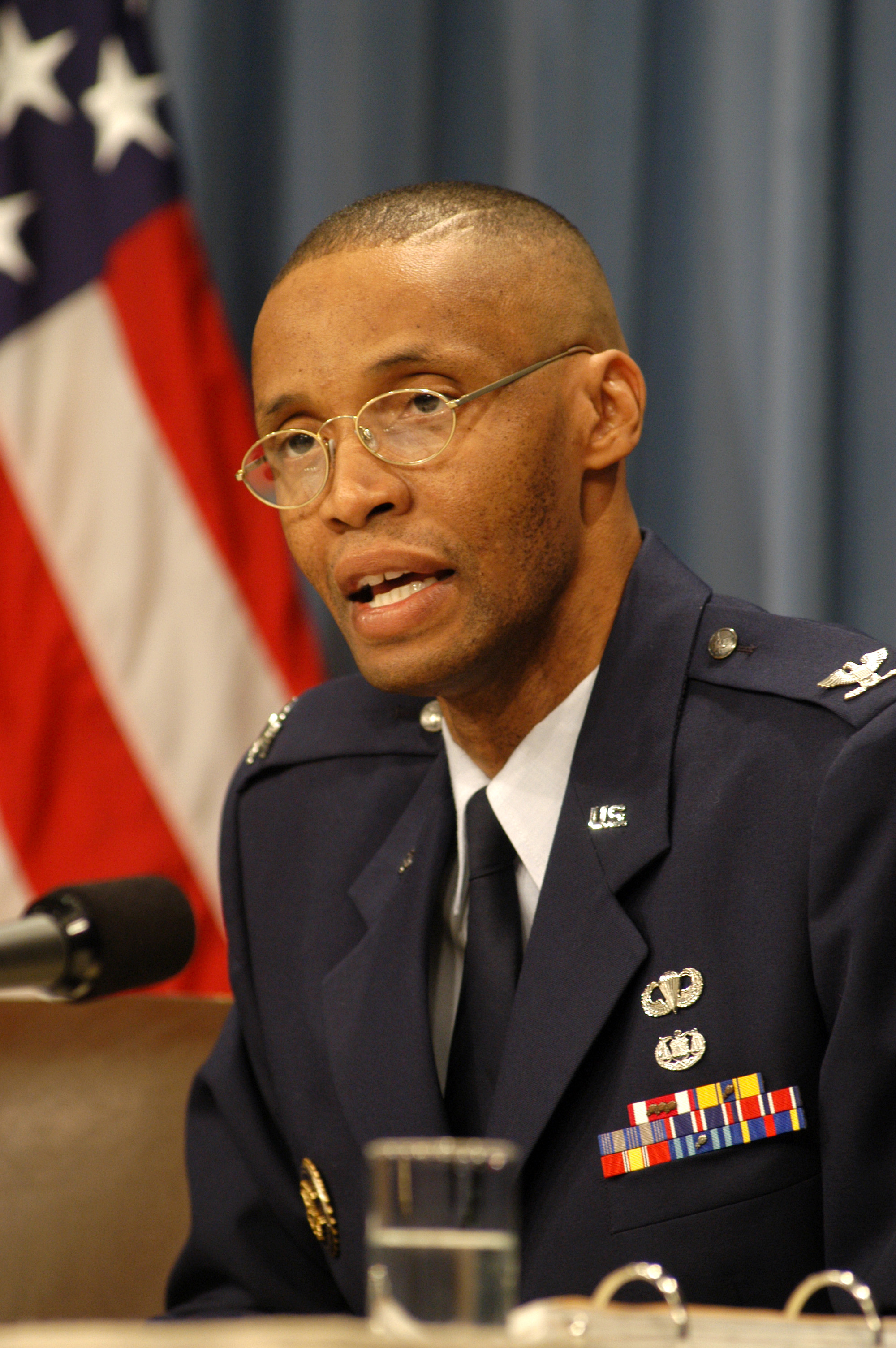 Air Force Col. Will A. Gunn, recently named by the Office of the General Counsel of the Department of Defense as the acting chief defense counsel for military commissions, holds a press conference at the Pentagon on May 22, 2003, to discuss his role in the military commissions process. In November 2001, President George W. Bush decided that enemy combatants taken into custody by the armed forces of the United States and charged as terrorists may be tried by military commissions. The President has not designated that anyone stand trial by military commission, but it is deemed prudent to establish the framework for such a body should the need arise. Col. Gunn commented that he thought it was particularly important that he and his staff be prepared to mount a vigorous defense of their clients, as the trials were sure to come under close scrutiny.